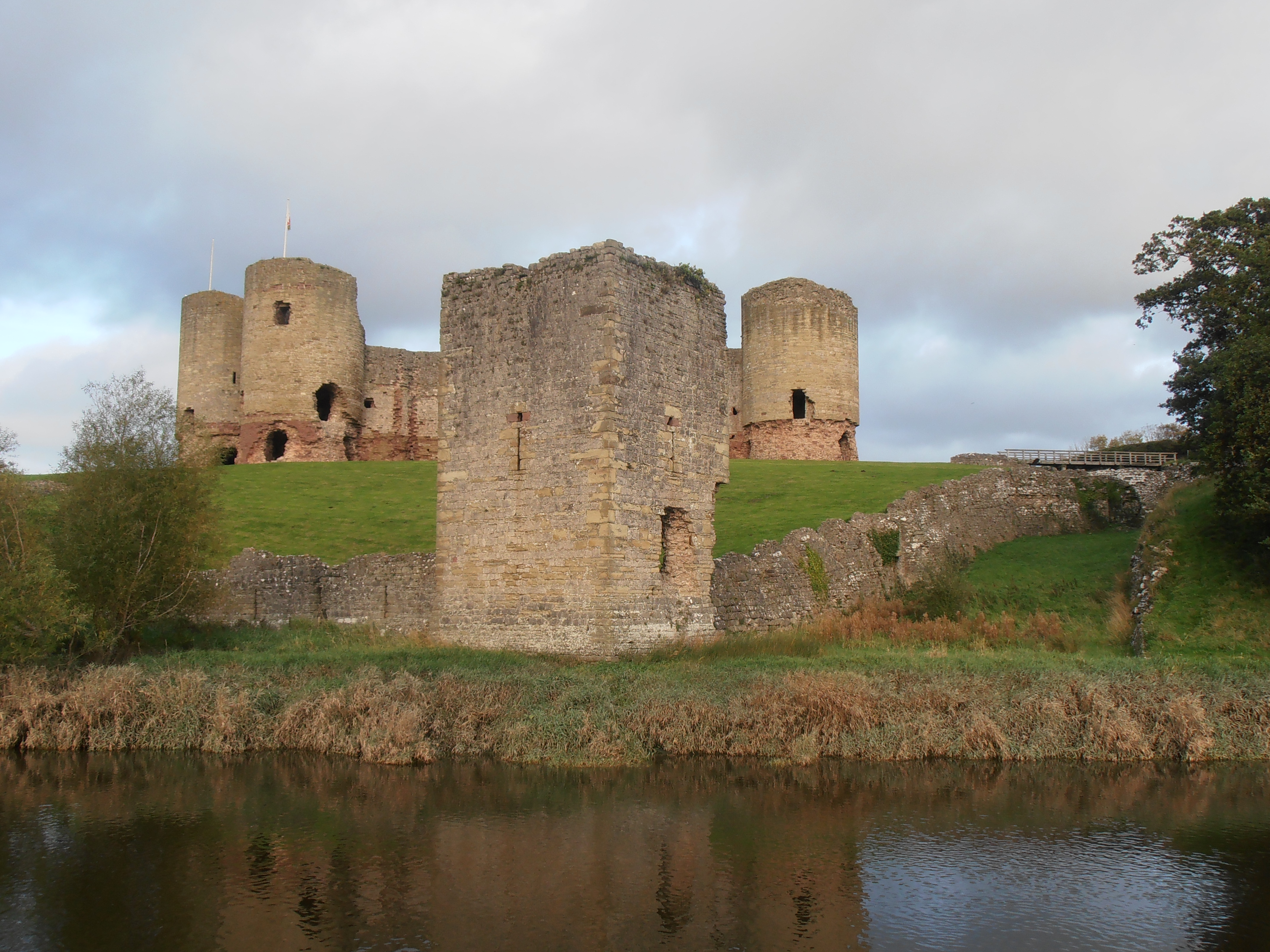 Castell Rhuddlan Castle, Denbighshire, North Wales